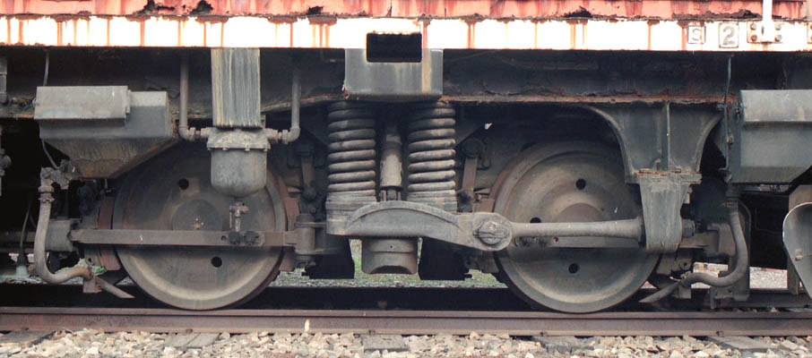 JNR Model DT131 Track (for Type DE50 Diesel Locomotive)